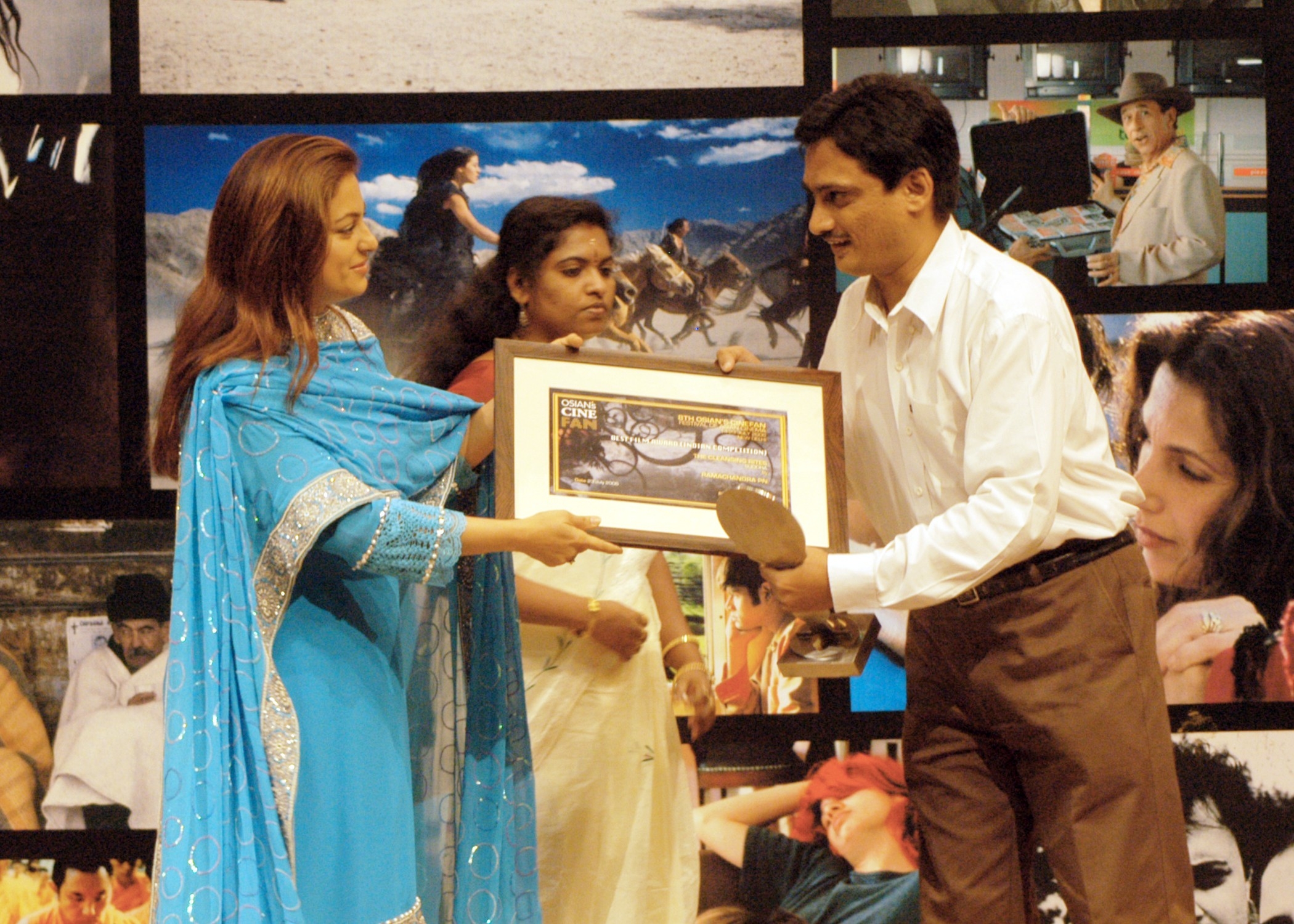 Suddha being awarded the Best Indian Film award at the Osean Cinefan Festival of Asian F1lms, 2006